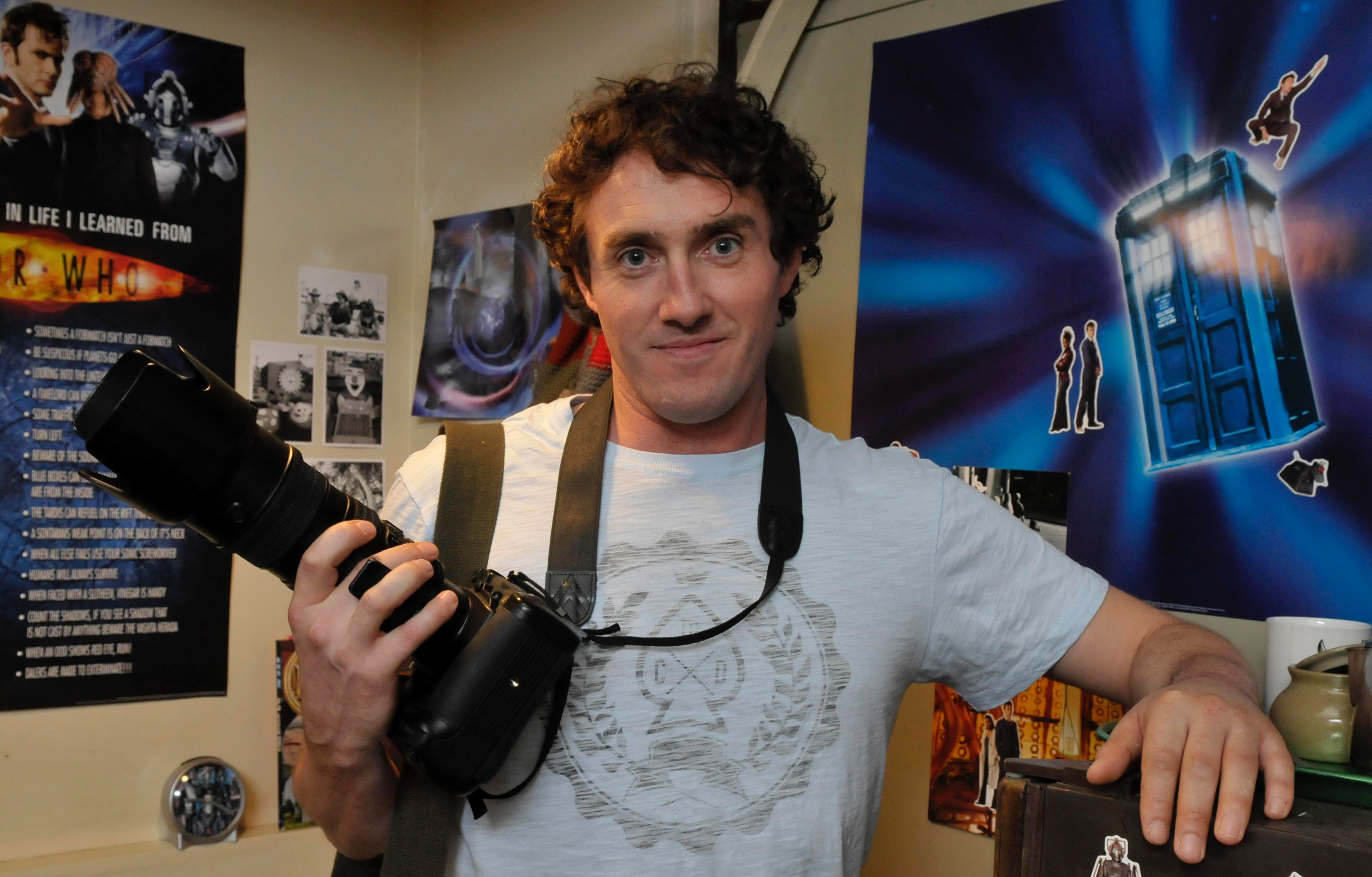 Paul Denny as 'Bob Geraghty' in the ABC TV comedy series Lowdown.